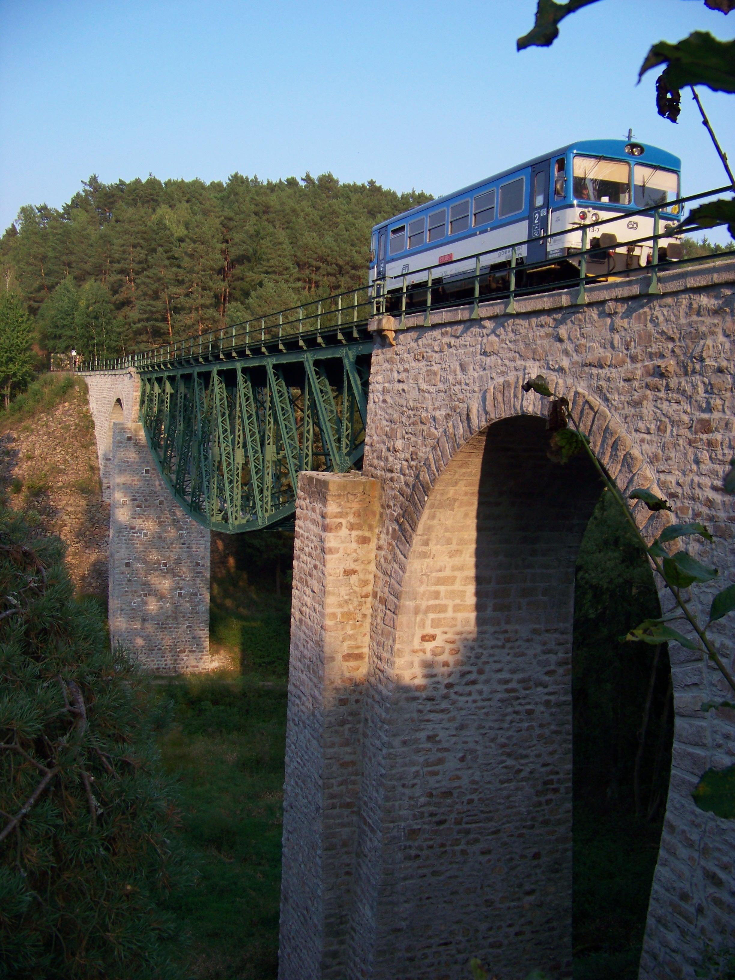 Čistá, Rakovník District, Central Bohemian Region, the Czech Republic. A railway bridge over the Javornice river between Strachovice and Čistá.